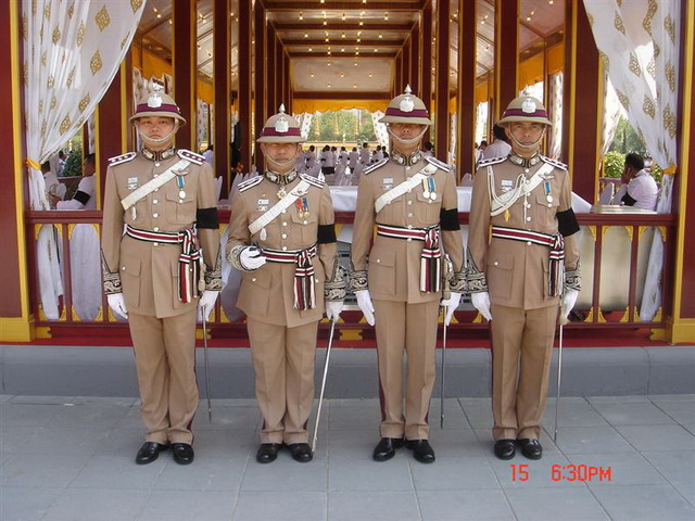 นายตำรวจปกครอง rpcacommander